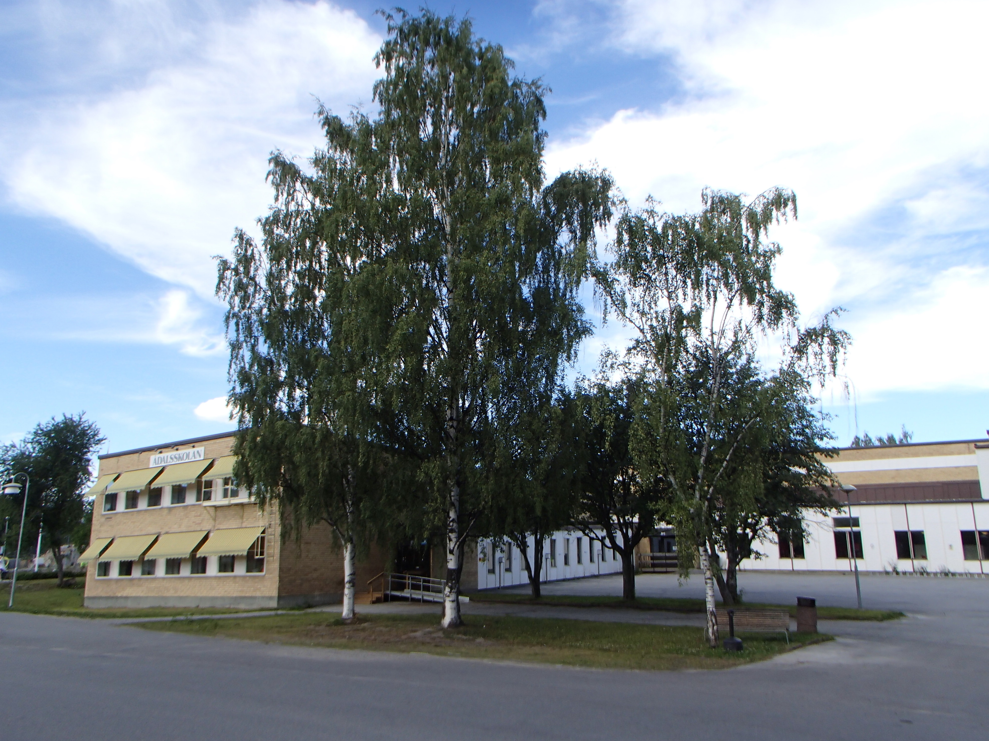 The gymnasium (school) "Ådalsskolan" in Kramfors, Sweden, viewed from south